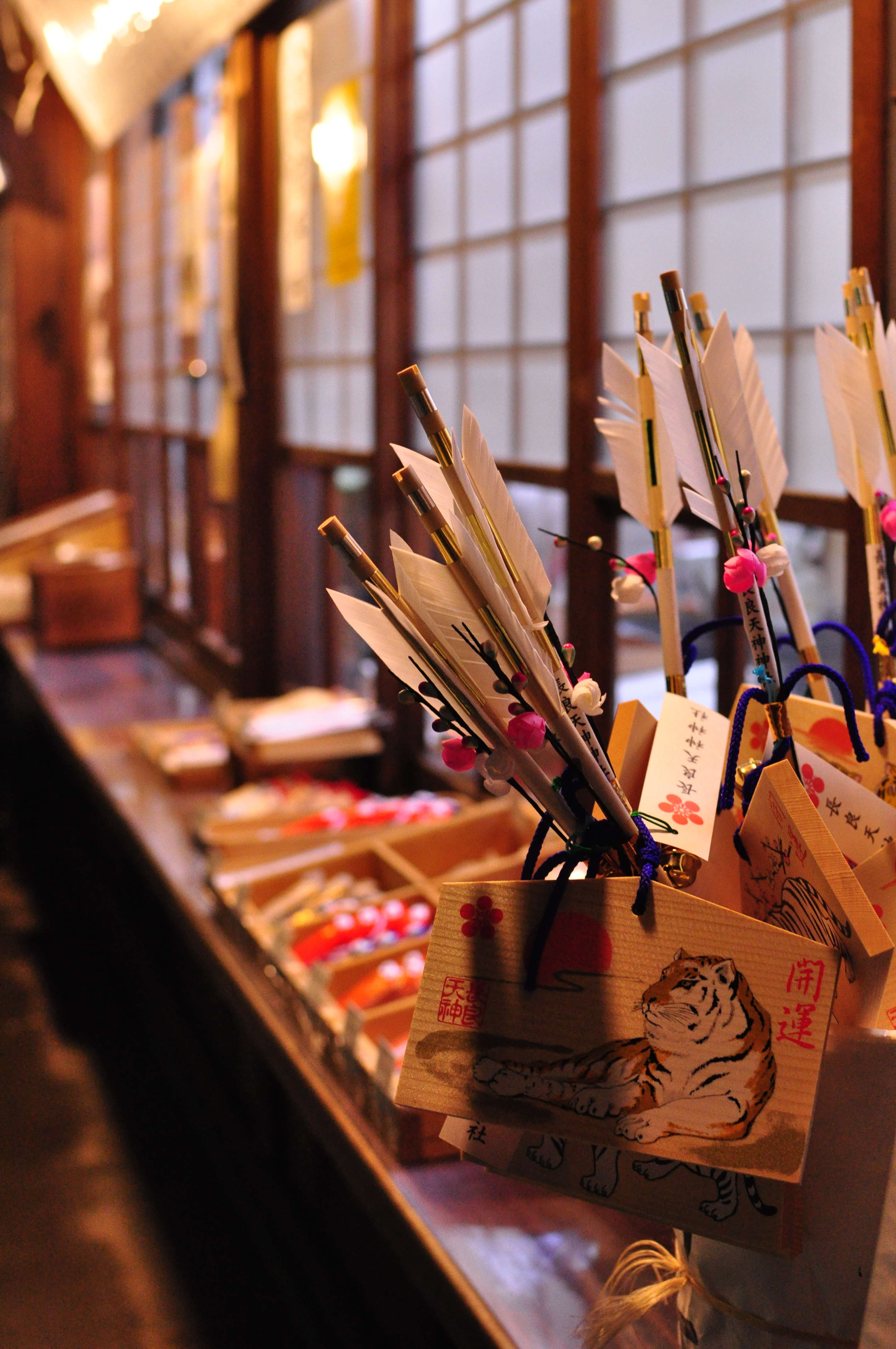 Nagara-tenjin-jinja in New Year's Day. Nikon D90 + AF-S DX Nikkor 35mm f/1.8G